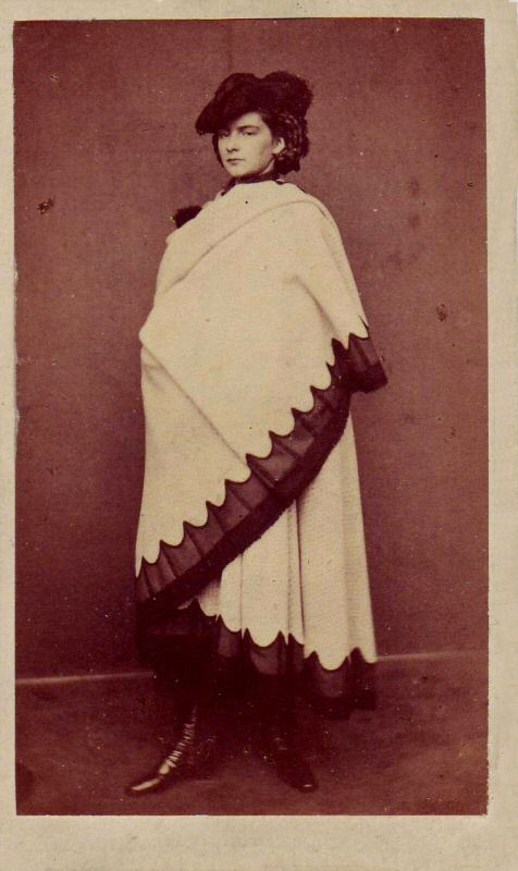 Photograph of Maria Sophia, Queen of the Two Sicilies, standing and looking to front. She wears a poncho style cloak which has a bold edging pattern, and a hat.